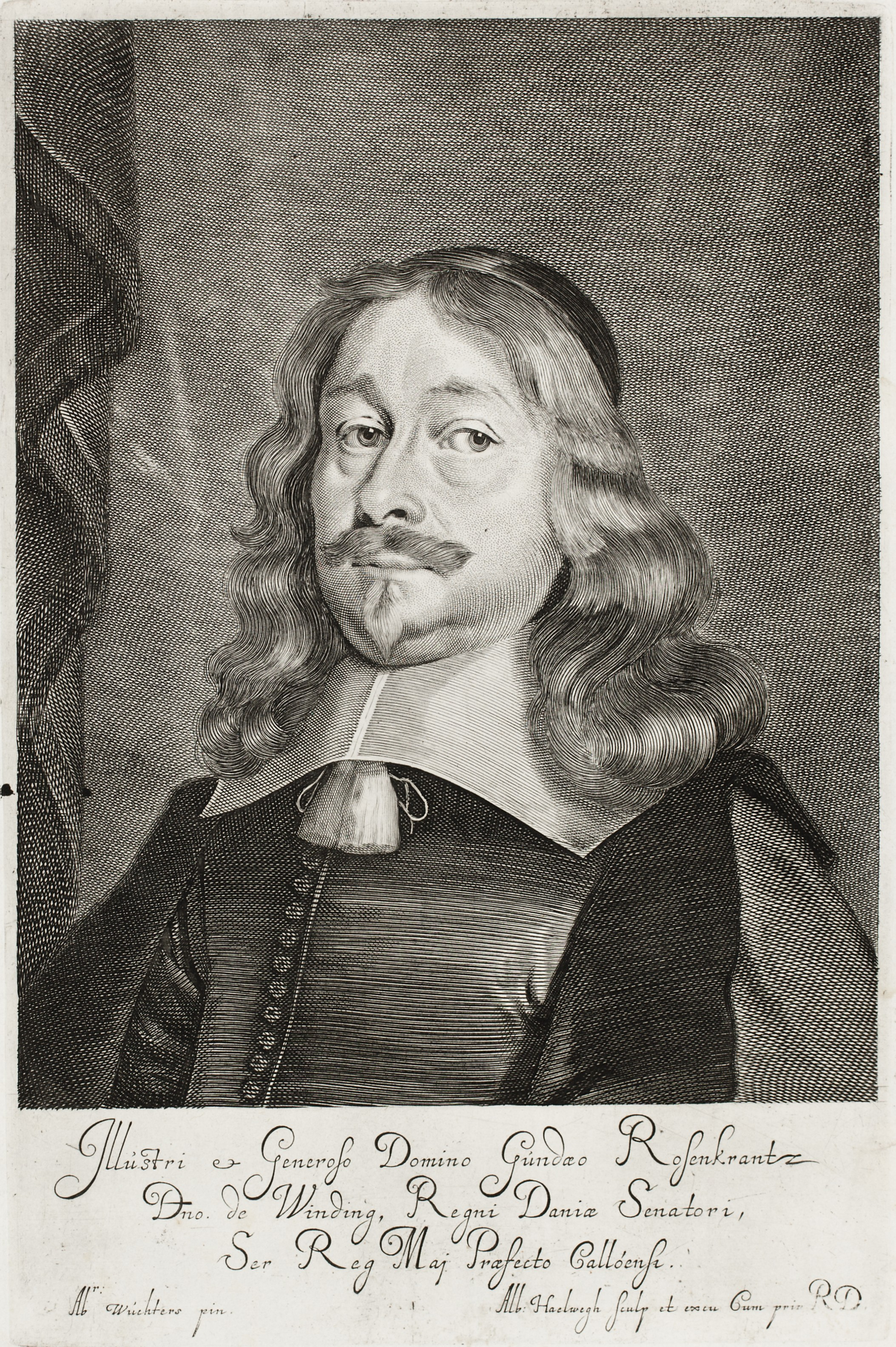 Note: For documentary purposes the original description has been retained. Factual corrections and alternative descriptions are encouraged separately from the original description.Porträtt av Gunde Rosencrantz till Vindingegård, riksråd (1653), 1650-tal. Nyckelord: Riksråd, Föremålsbild, 1600-tal